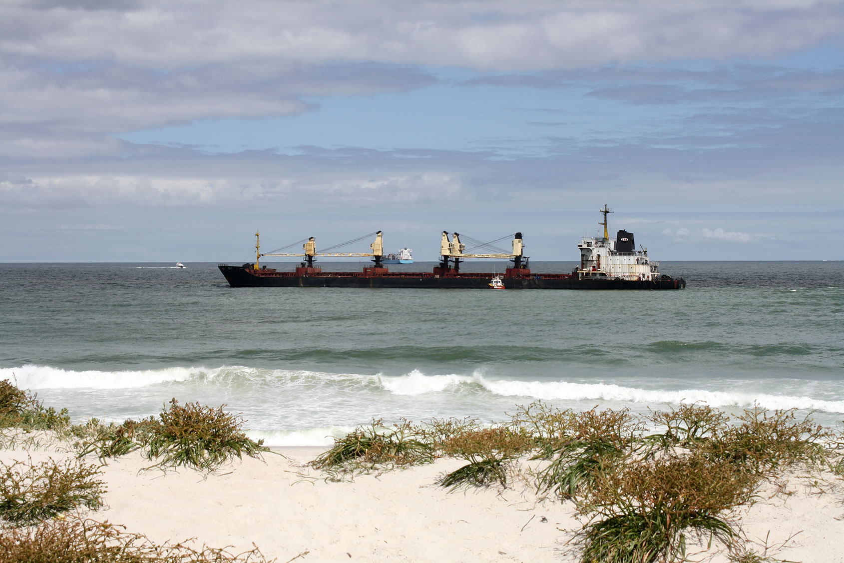 The following is the author's description of the photograph quoted directly from the photograph's Flickr page. "The Seli 1 ran aground in stormy weather on 18 September 2009, and is still stranded off Dolphin Beach. Salvage operations are ongoing. "